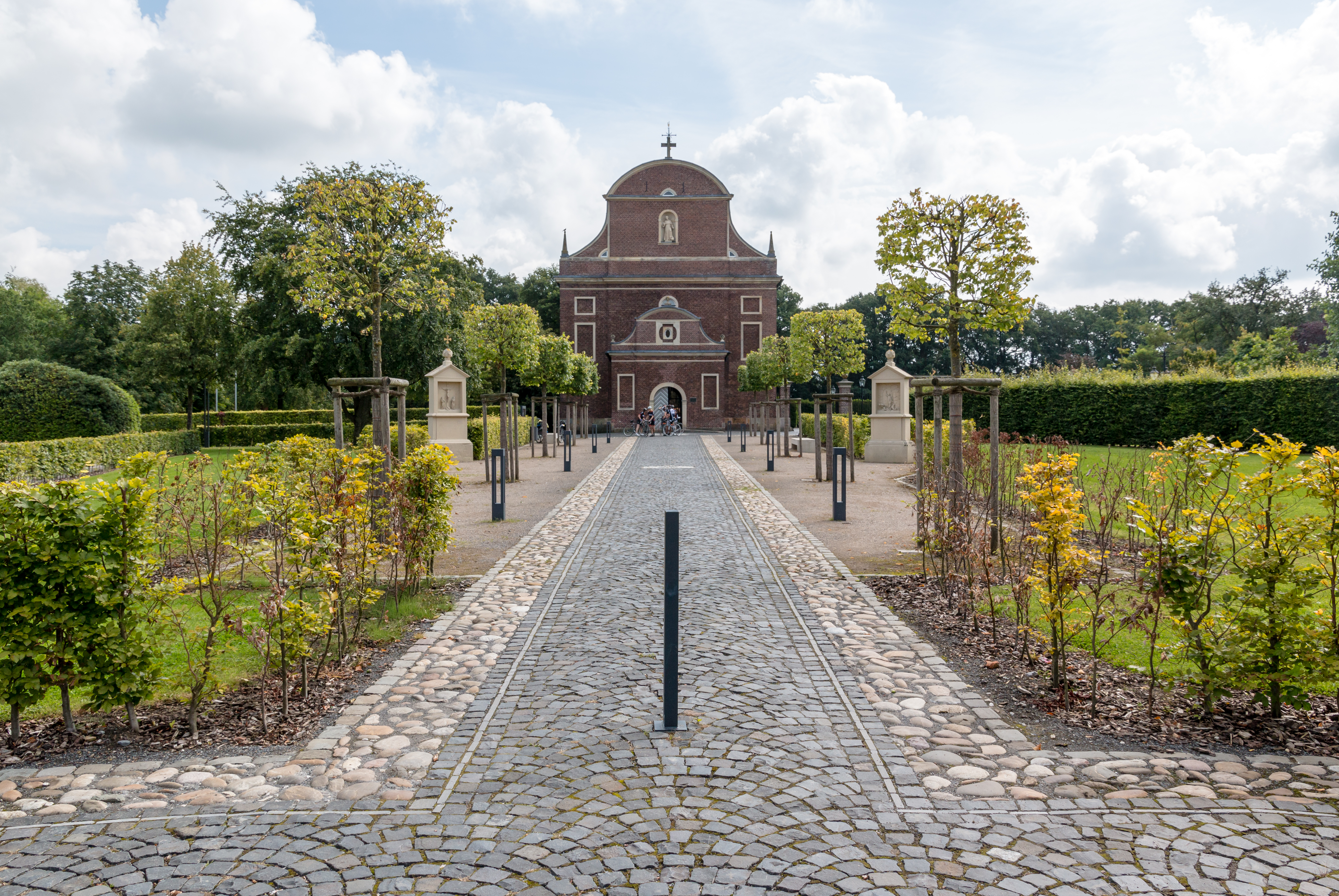 St. Francis Church, Zwillbrock, Vreden, North Rhine-Westphalia, Germany This image shows a heritage building in Germany, located in the North Rhine-Westphalian city Vreden (no. 5).